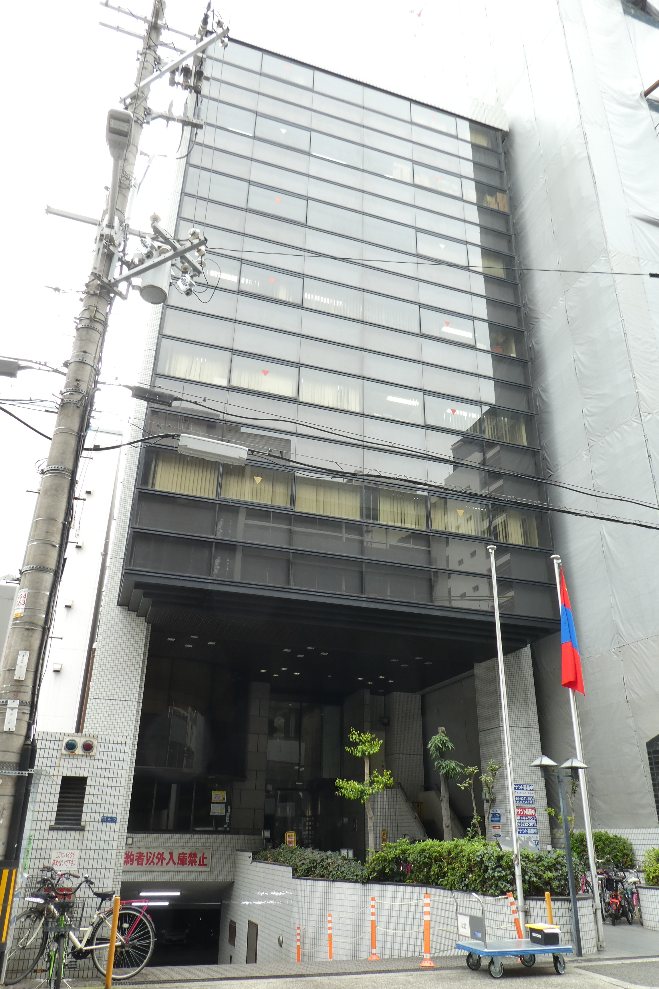 Bakuromachi Estate Building in Osaka, Japan. It hosts several companies and organizations, which include the Consulate-General of Mongolia.